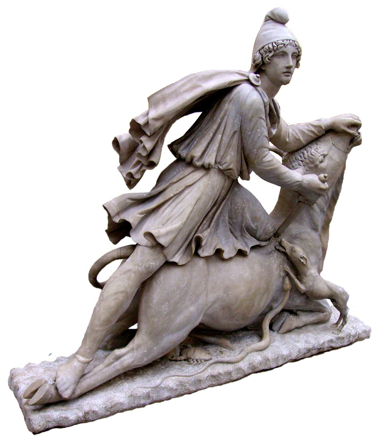 Photo taken at British Museum by Mike Young